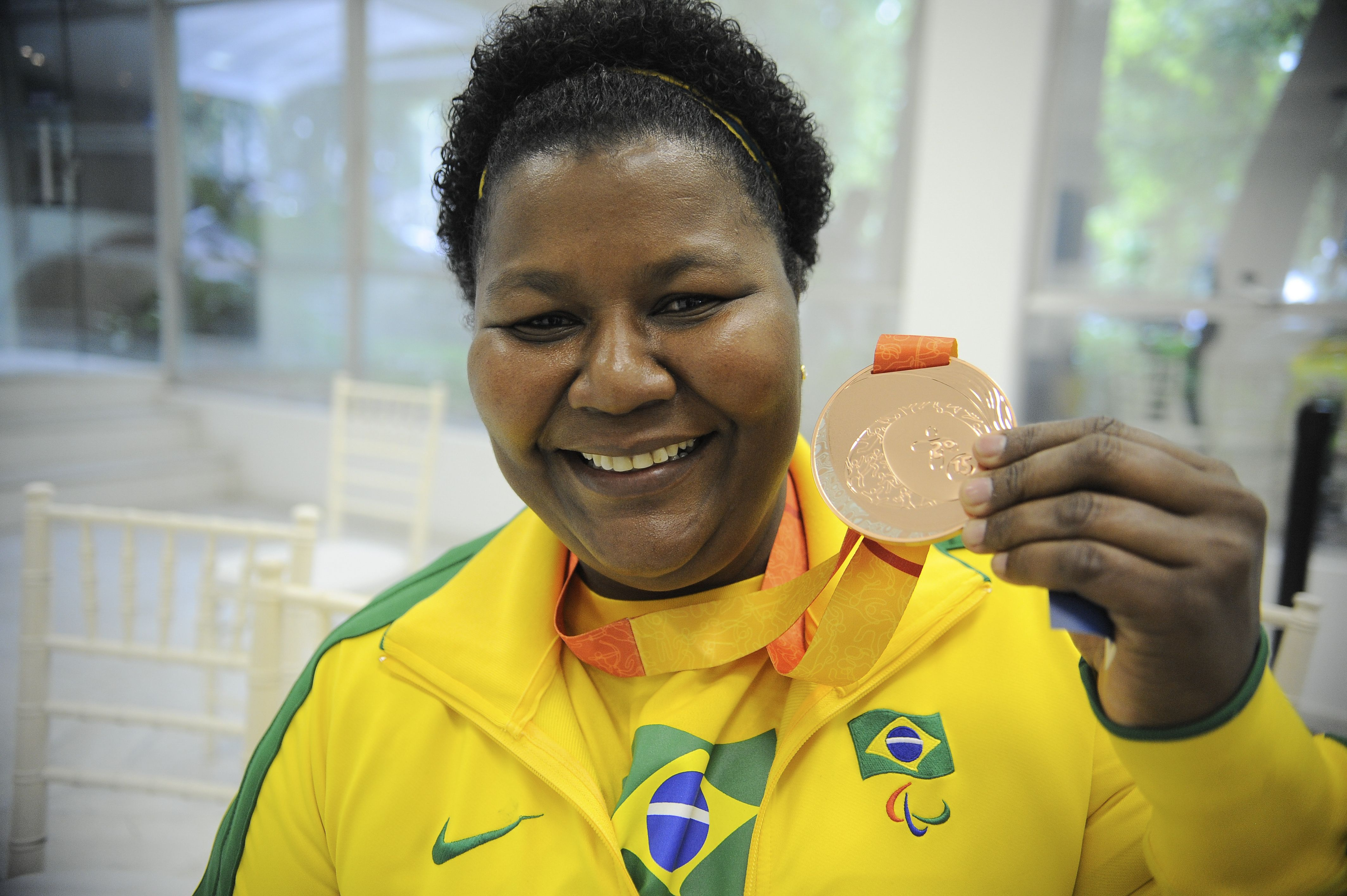 Photo by Tânia Rêgo/Agência Brasil